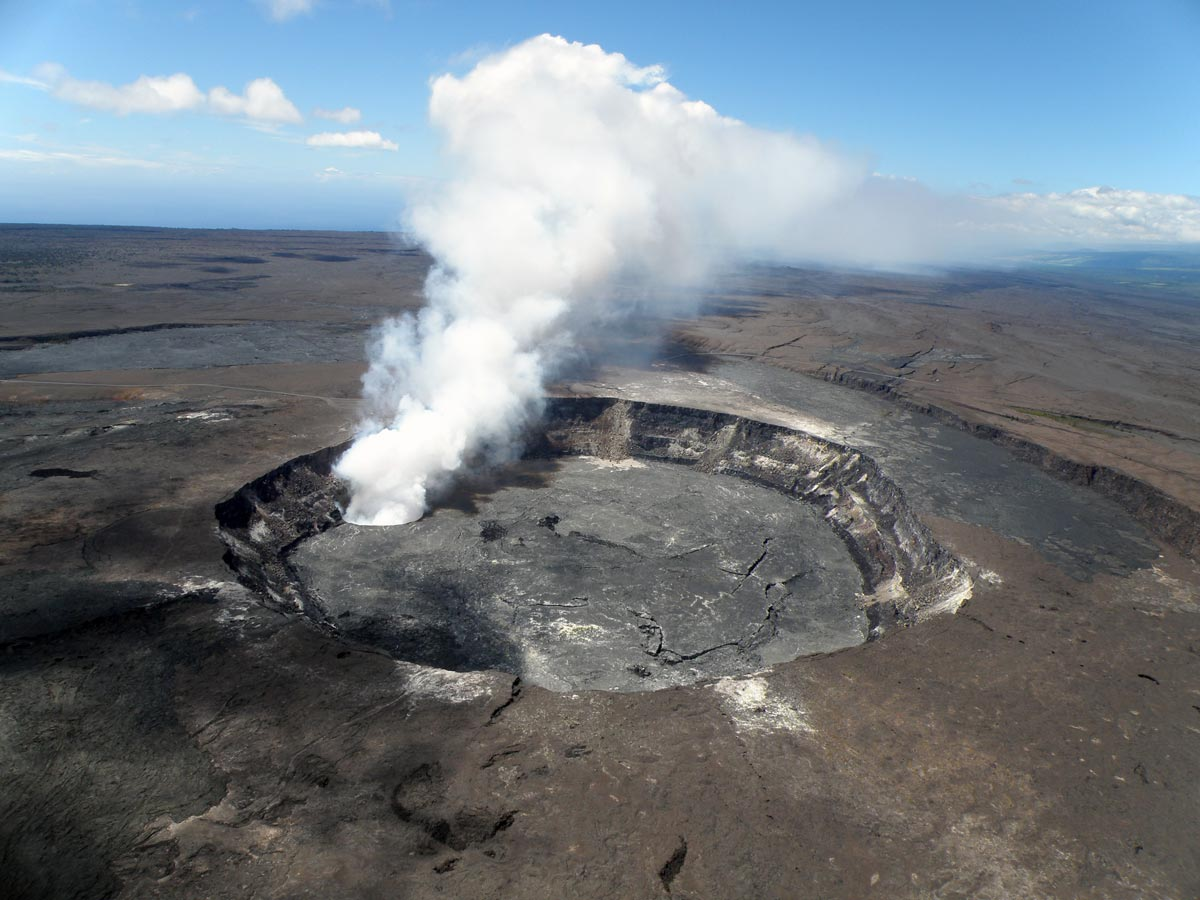 the Halemaʻumaʻu plume rising from the vent and drifting towards the southwest